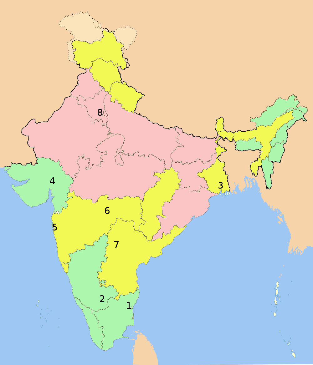 Map showing the safety for women in various states in India, as well as the safety ranking for the largest agglomorations. The map was made based on the Female Safety Index (FSI) in the Well_Being Index India Report 2013 made by Tata Strategic Management Group.[1] States: light green: greatest safety yellow: medium safety light red: least safety I should be noted that the color patterns (light red, yellow, light red) indicate the safety relative to India; on a global level, the whole of India would actually be red (and the states within it would thus also be in shades of red). and Largest agglomorations depending on FSI (1 being most safe, 8 least safe): 1: Chennai 2: Bangalore 3: Kolkata U/A 4: Ahmedabad 5: Mumbai MMR 6: Pune U/A 7: Hyderabad U/A 8: Delhi NCR